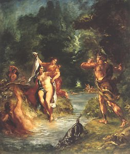 Summer: one of Hartmann's Four Seasons